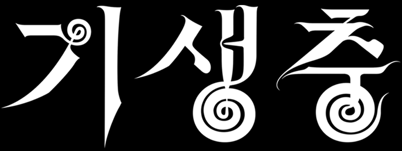 Logo for Parasite 2019 film in Korean with the word 기생충